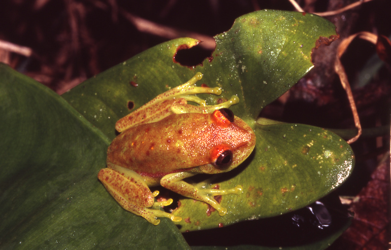 Hypsiboas punctatus